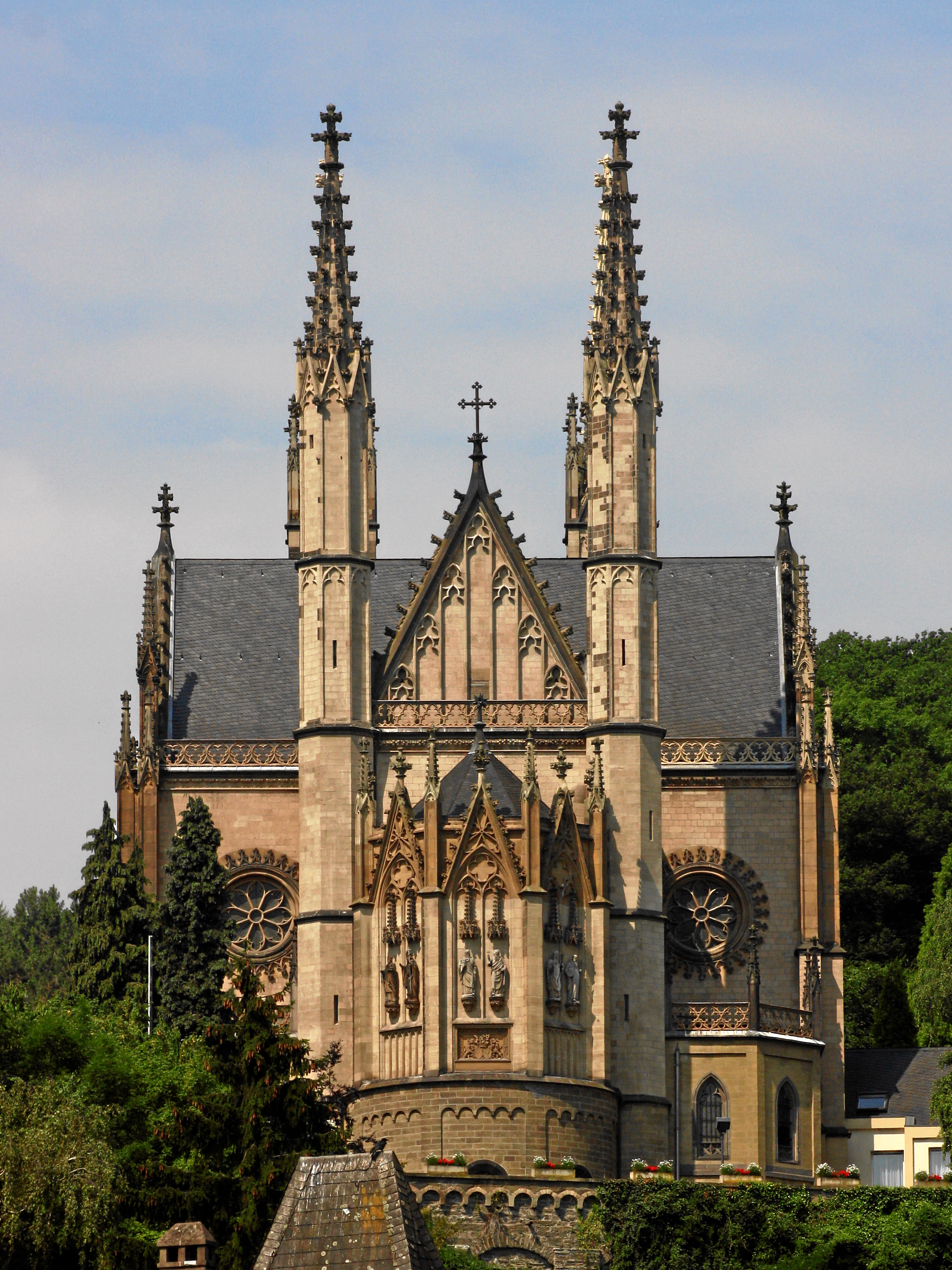 Remagen, Germany. Roman-catholic church Saint Apollinaris, exterior view from East.